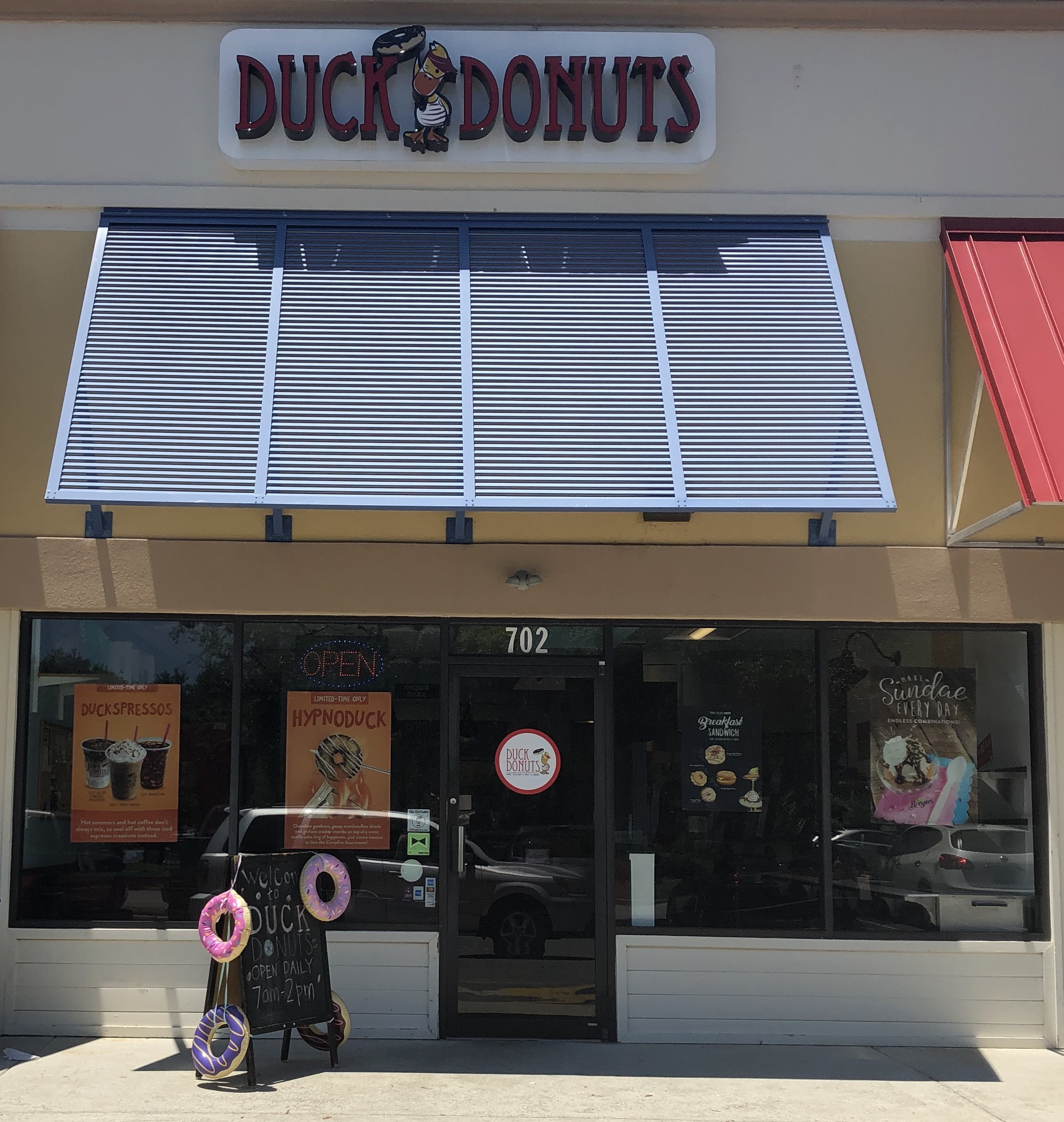 Exterior of a Duck Donuts store